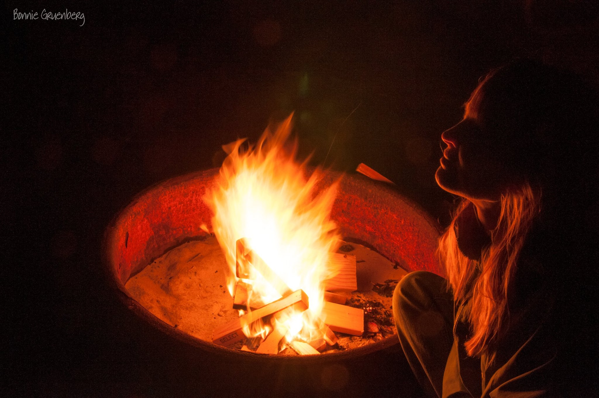 A woman sits by a camp fire in the night.